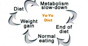 This picture describes the steps of Yo-yo effect